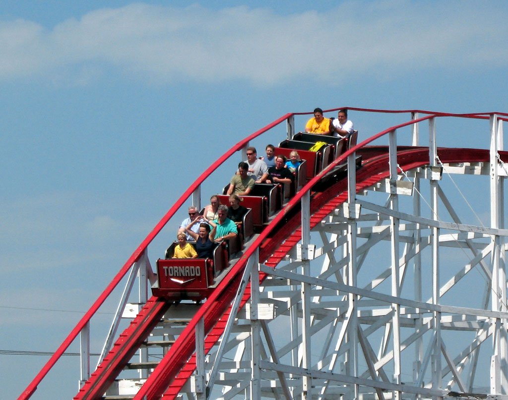 Tornado at Stricker's Grove. Taken August 2007 during Family Day.